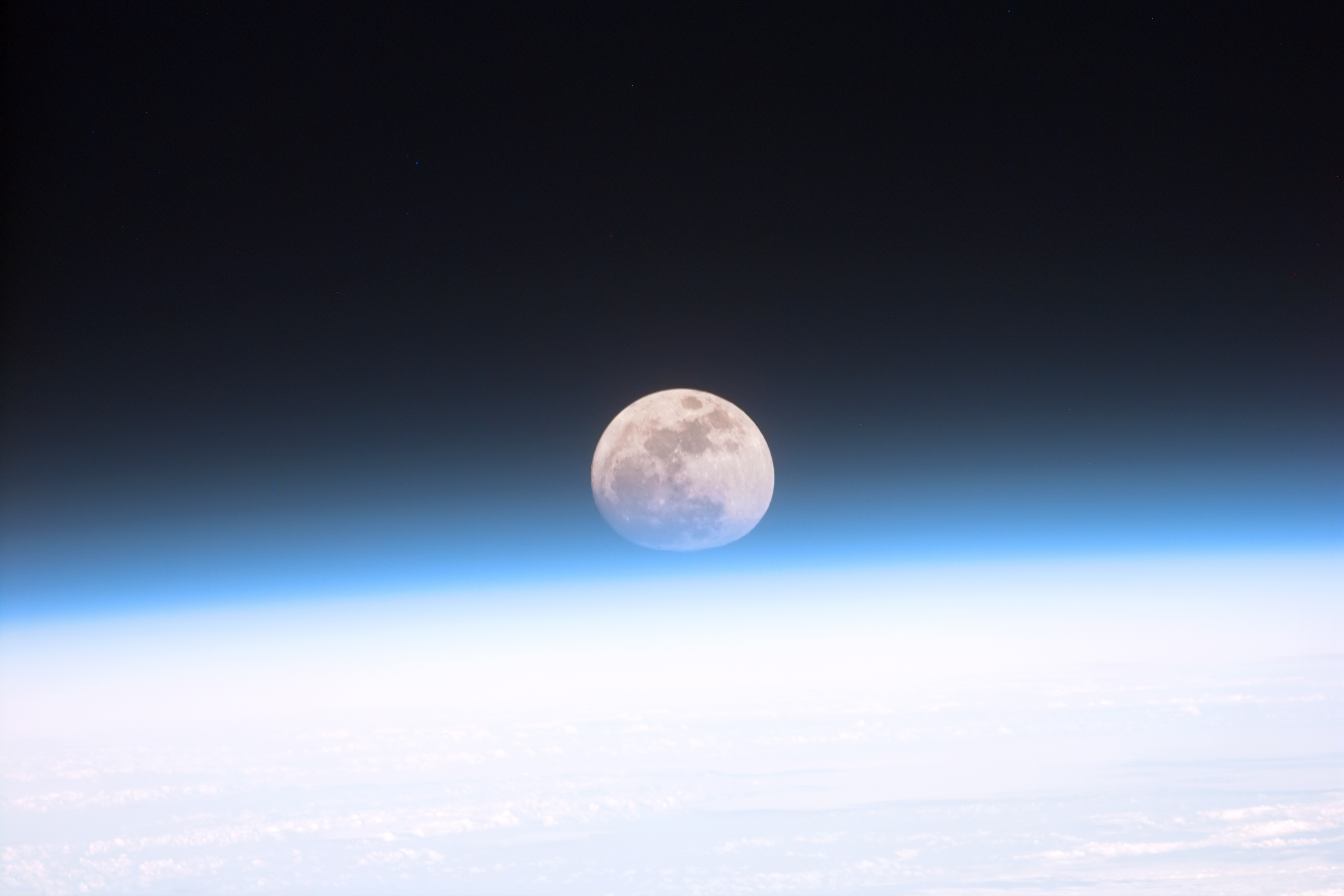 Original caption from NASA: "S103-E-5037 (21 December 1999)--- Astronauts aboard the Space Shuttle Discovery recorded this rarely seen phenomenon of the full Moon partially obscured by the atmosphere of Earth. The image was recorded with an electronic still camera at 15:15:15 GMT, Dec. 21, 1999.".